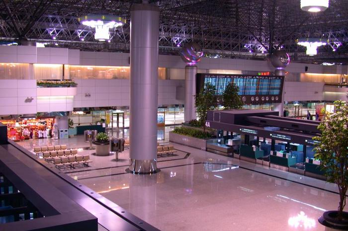 Taiwan Taoyuan International Airport Terminal 2.